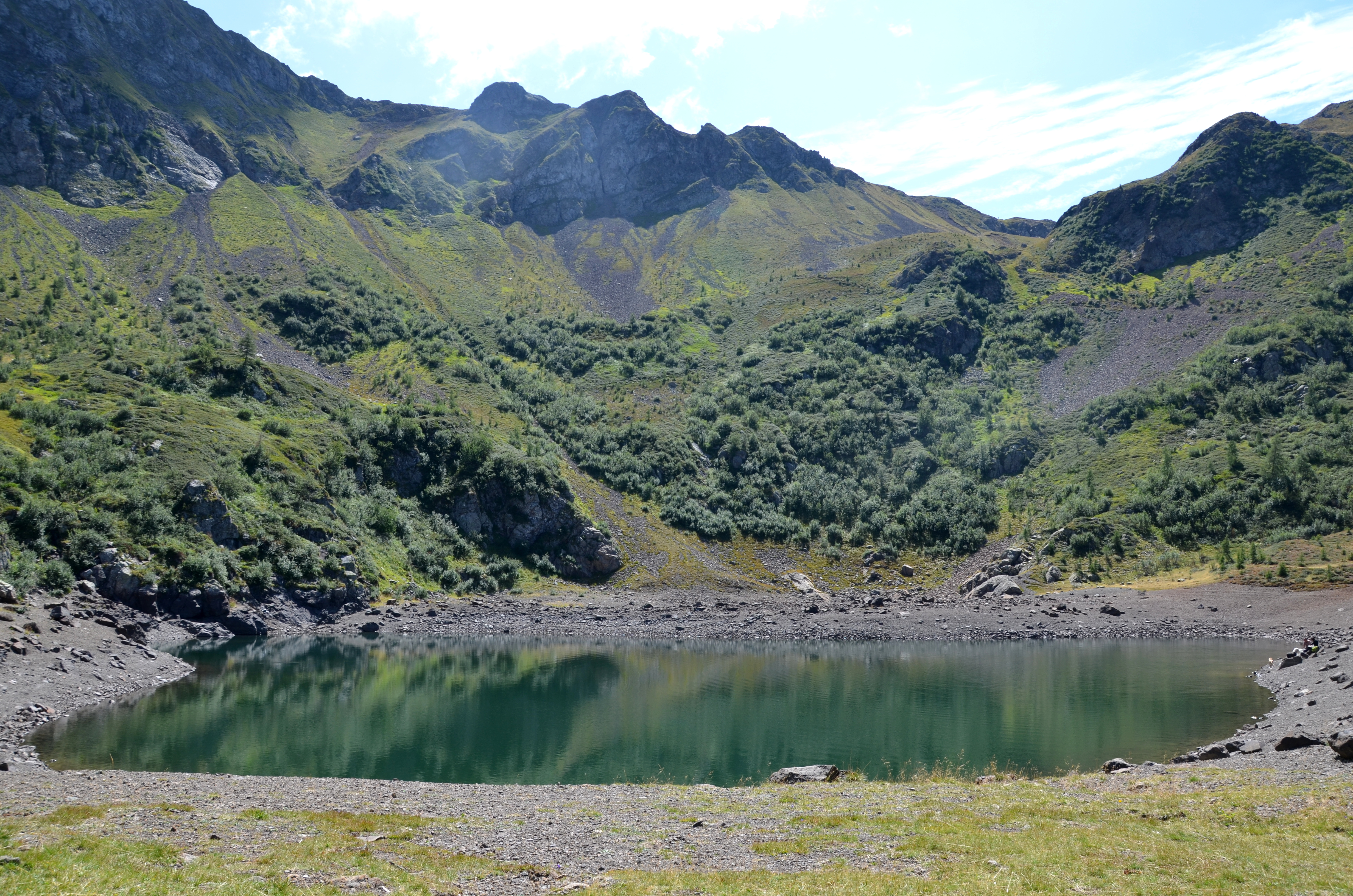 Erdemolo's Lake